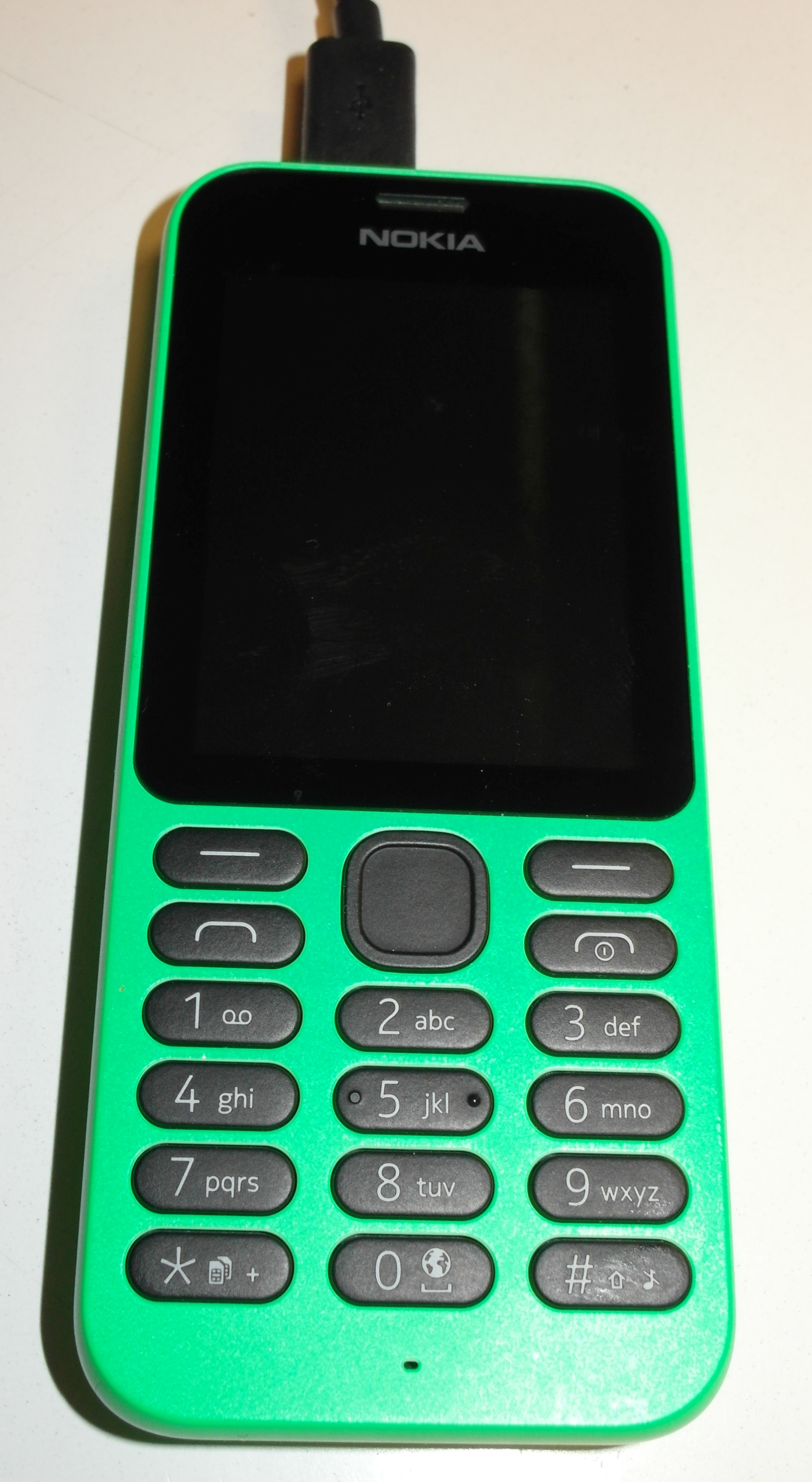 Front view of a Nokia 215 cell phone